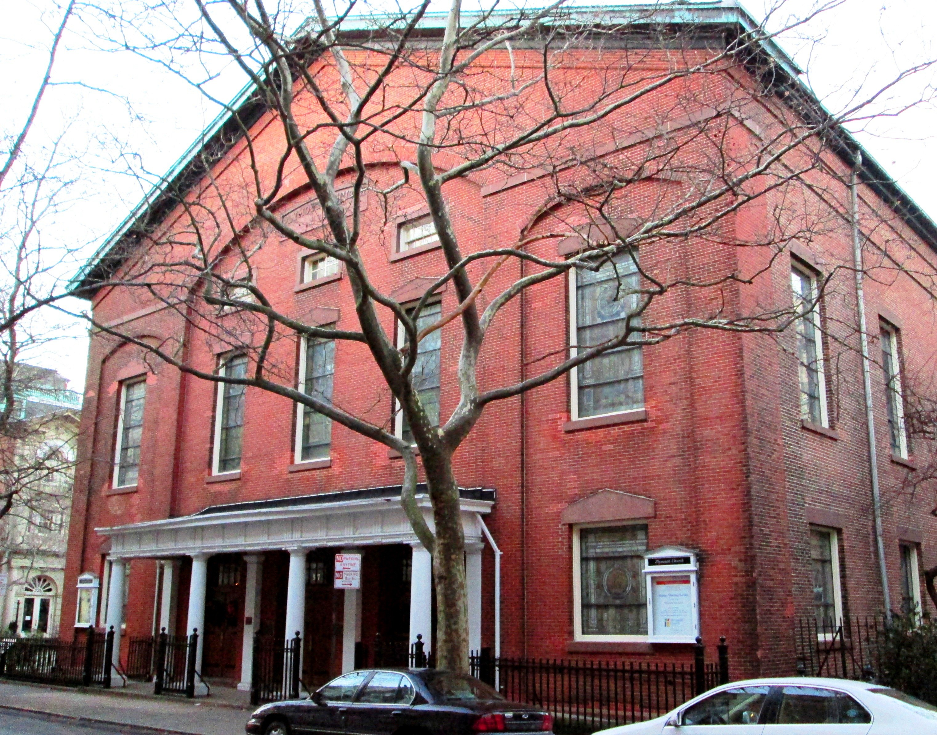 The Plymouth Church on Orange Street between Henry and Hicks Street in the Brooklyn Heights neighborhood of Brooklyn, New York was built in 1849-1850 and was designed by Joseph C. Wells. It has Tiffany stained glass windows that came from the Congregational Church of the Pilgrims when the two parishes merged in 1934. The church is notable for being the home church of Henry Ward Beecher from 1847 to 1887, where he preached his abolitionist views. The church complex, which includes a Parish House and connecting arcades (1913-1914, by Woodruff Leeming), is located within the Brooklyn Heights Historic District, and the church is a National Historic Landmark. (Source: AIA Guide to NYC (5th ed.))